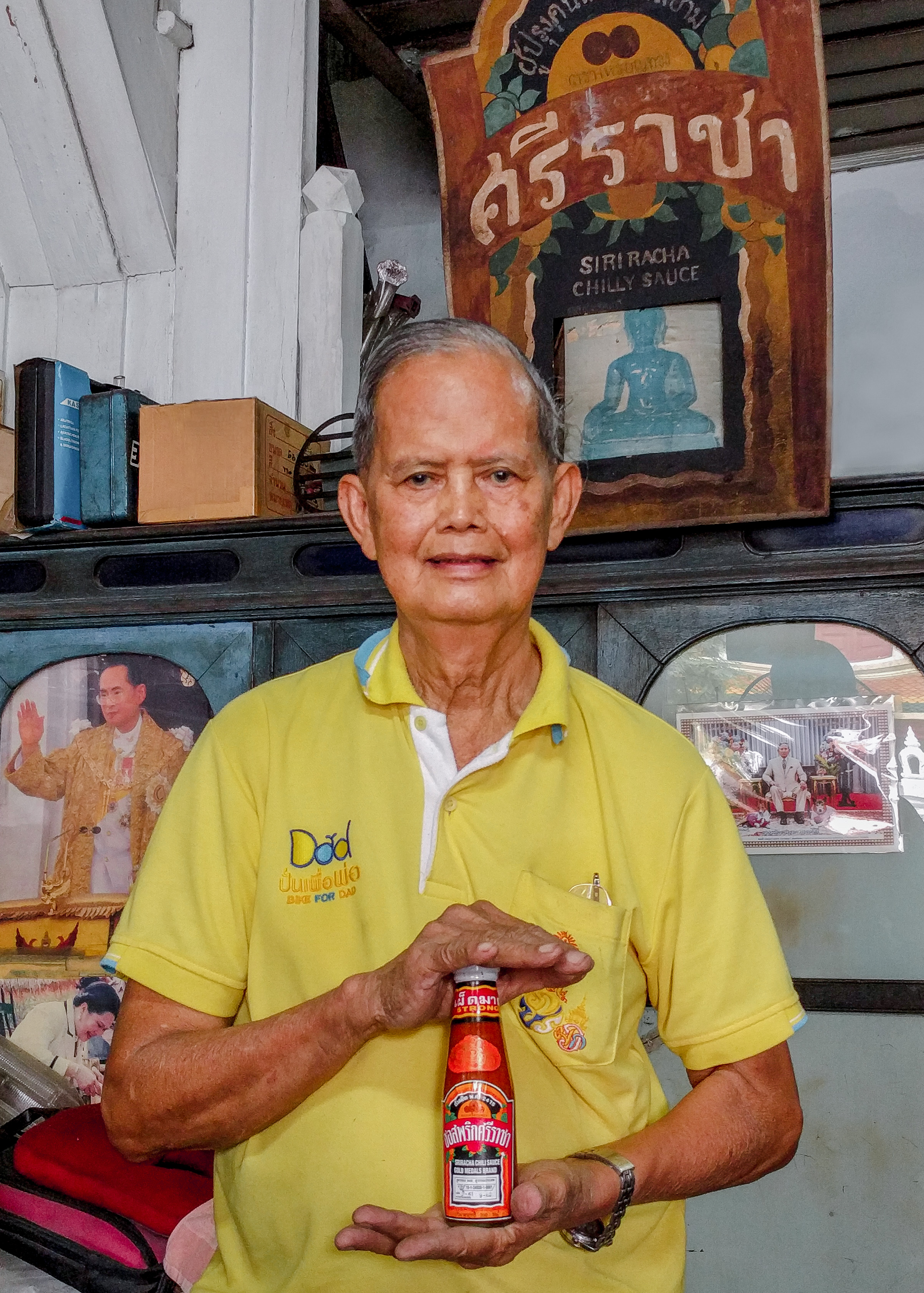 Lakut Suwanprasop, son of Madam La Orr Suwanprasop and proud owner of Gold Medal Sriracha Sauce.